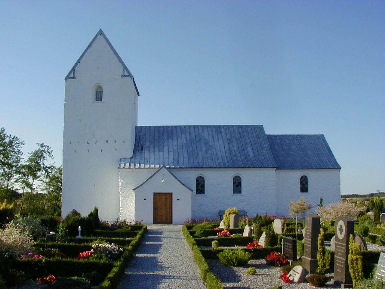 One of the two churches in Tjorring, Denmark. This church is the old church in Tjorring and one of the oldest in Denmark.